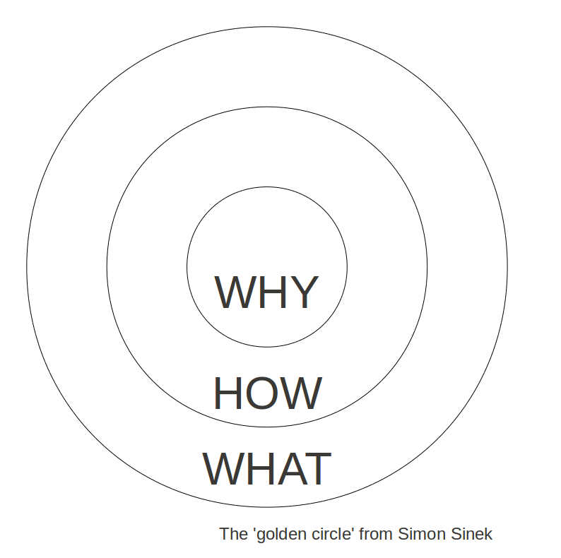 A diagram of what Simon Sinek calls 'The Golden Circle'. In his TEDx talk, he says 'People don't buy what you do; they buy why you do it.""